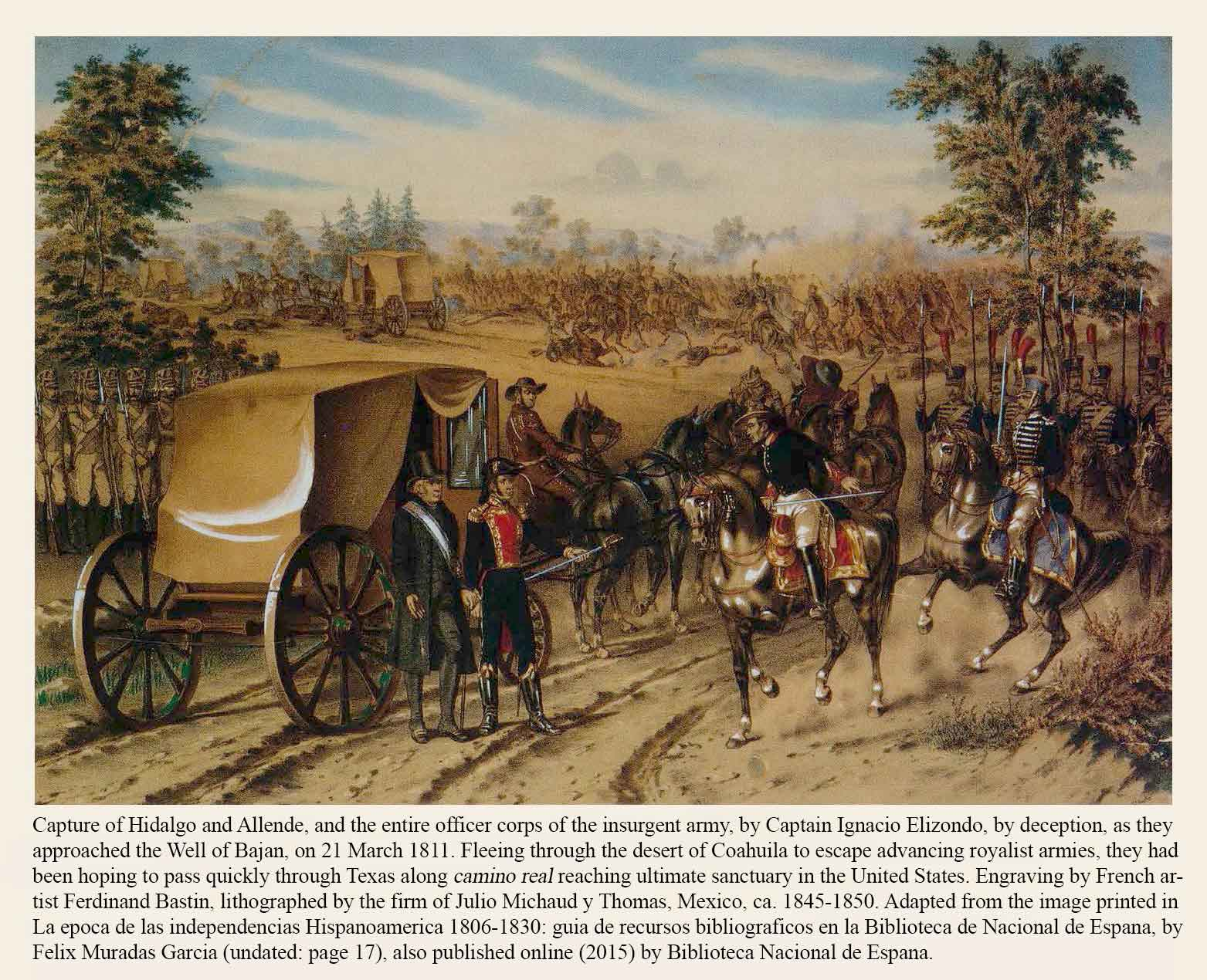 Col. Ignacio Elizondo captures insurgents at the Wells of Bajan [1910 postcard celebrating the first centennial of the Mexican revolution]